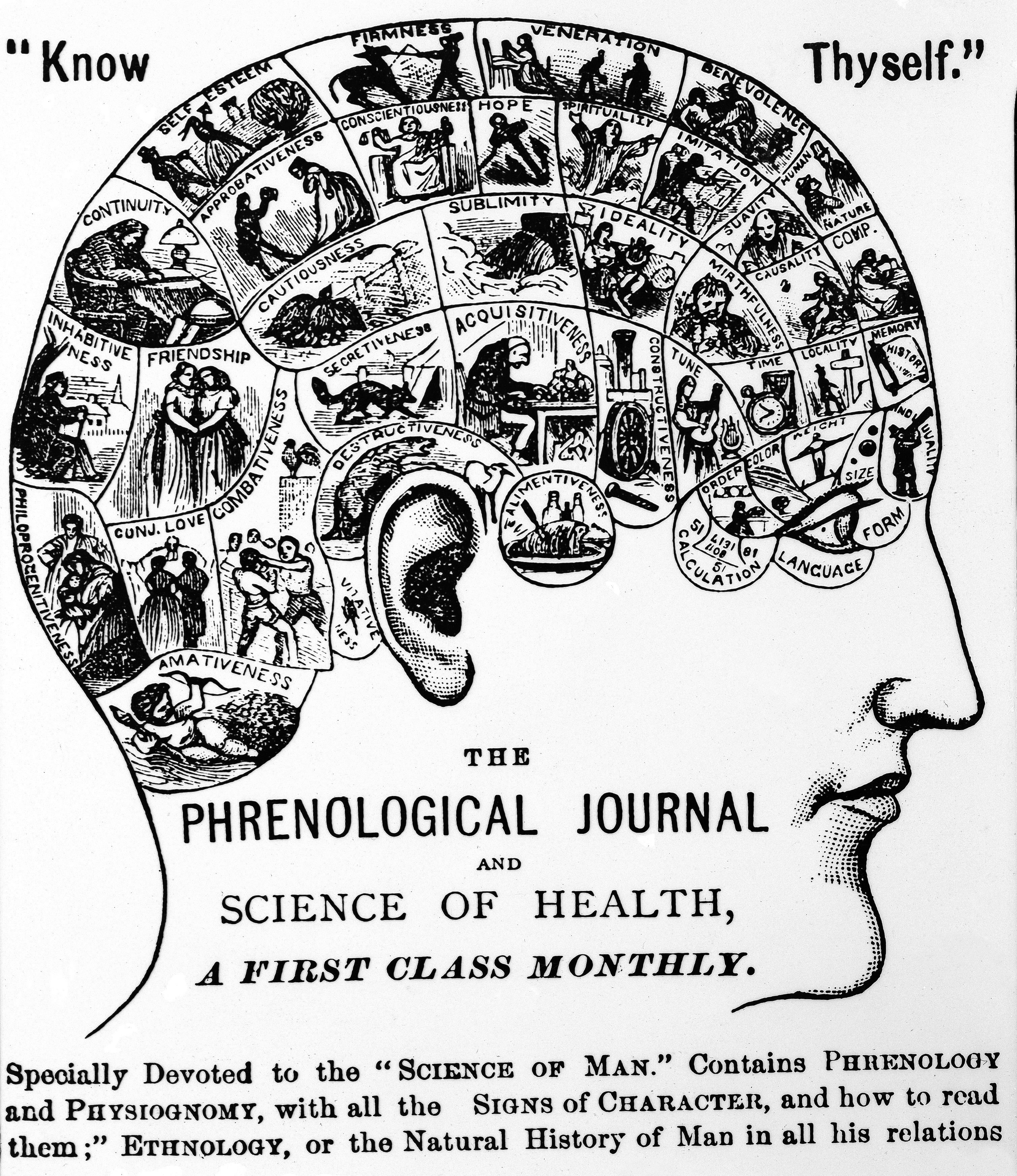 Chart from 'The Phrenological Journal' ("Know Thyself"), print from Dr. E. Clark. Wellcome Images Keywords: Phrenology